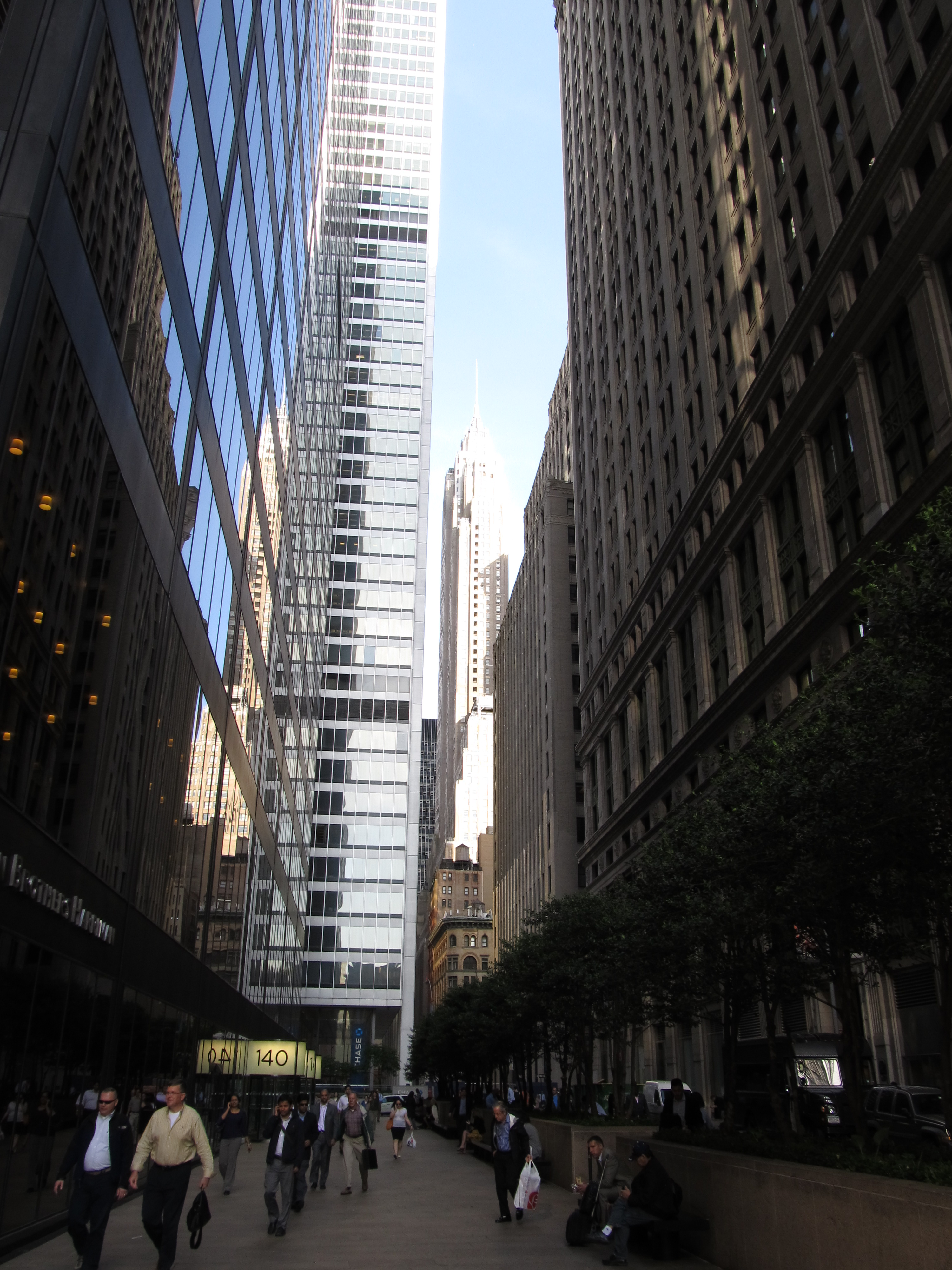 The Marine Midland Building (also HSBC Bank Building) is a 51-story office building located at 140 Broadway in Manhattan's financial district. The building, completed in 1967, is 688 ft (209.7 m) tall and is known for the distinctive sculpture at its entrance, Isamu Noguchi's Cube. Gordon Bunshaft of Skidmore, Owings & Merrill, the man who designed the building, had originally proposed a monolith type sculpture, but it was deemed to be too expensive. It is currently owned by Union Investment. The Equitable Building is a 38-story office building in New York City, located at 120 Broadway in the Financial District of Lower Manhattan. A landmark engineering achievement as a skyscraper, it was designed by Ernest R. Graham and completed in 1915. The controversy surrounding its construction contributed to the adoption of the first modern building and zoning restrictions on vertical structures in Manhattan. Although it is now dwarfed by taller buildings in its vicinity, it still retains a distinctive identity in its surroundings on Lower Broadway. It was designated a National Historic Landmark in 1978. The Equitable Building, which is owned by Silverstein Properties, Inc., houses the offices of the New York State Attorney General, Spear, Leeds & Kellogg, Incisive Media, ALM, Lester Schwab Katz and Dwyer, Flycell, Adam Leitman Bailey, Tower Group Companies and others. After buying the building in 1980, Larry Silverstein had the building renovated and restored at a cost of $30 million, with renovations completed in 1990. The stretch of lower Broadway where the building sits has since become the traditional route of ticker-tape parades in Manhattan. The route past the building is known colloquially as the Canyon of Heroes, in part because of the sheer verticality of the building and others around it.